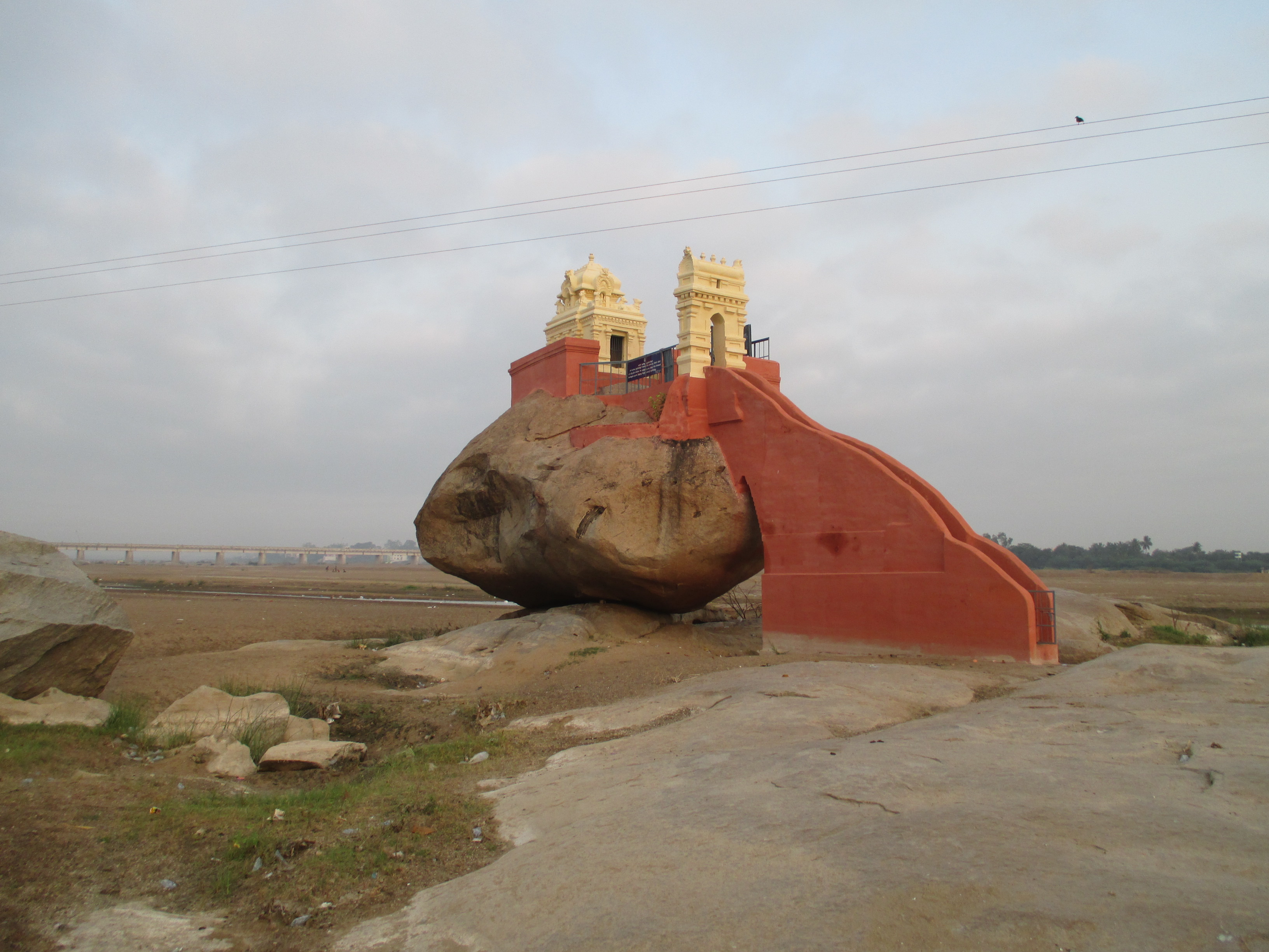 Kabilar Kundru